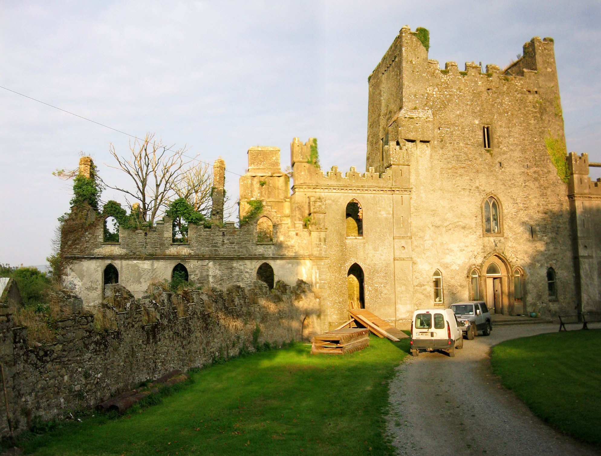 Central tower, gutted wing on left. It is where the elemental is also seen.